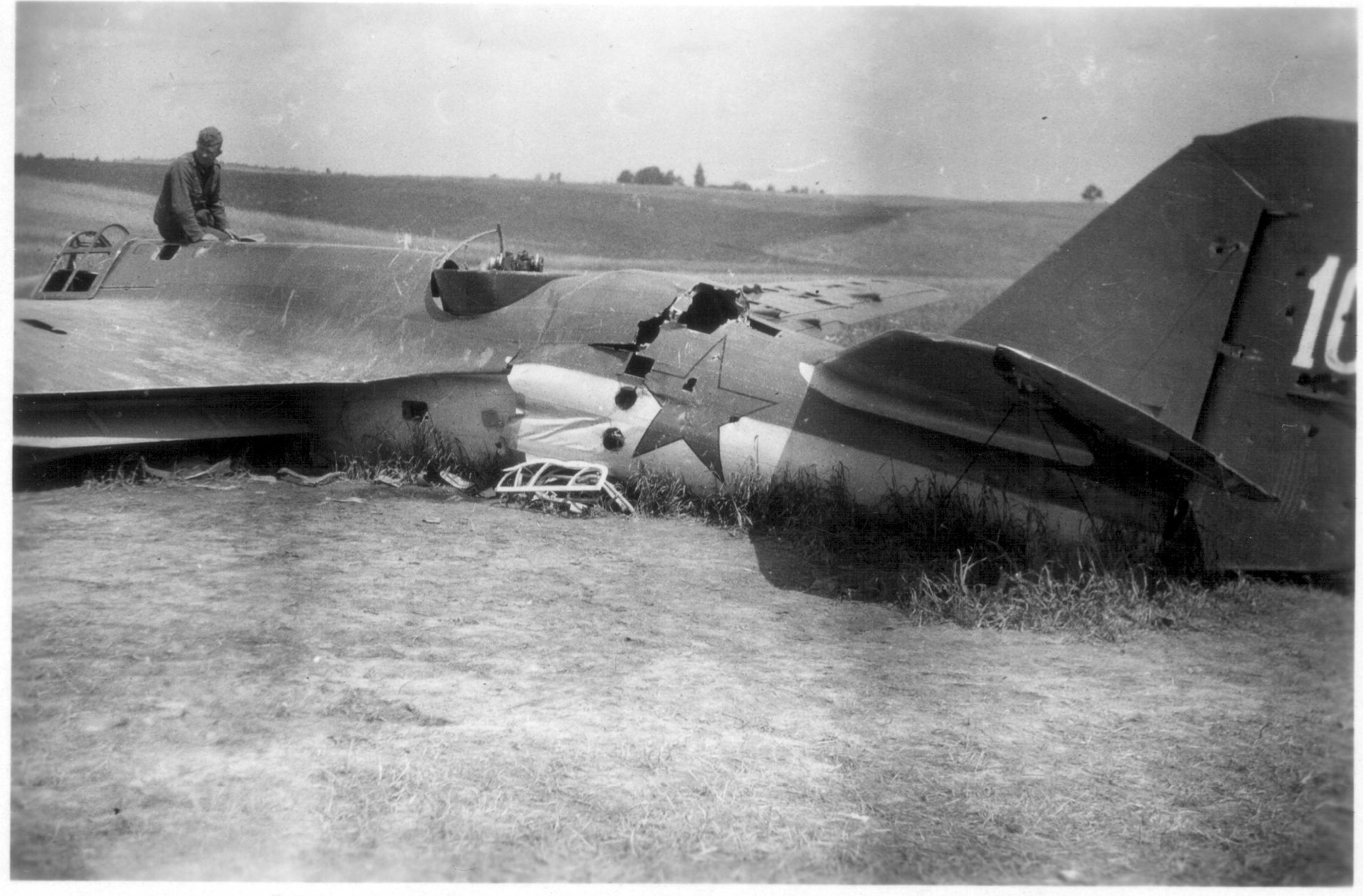 Shot down Tupolev SB